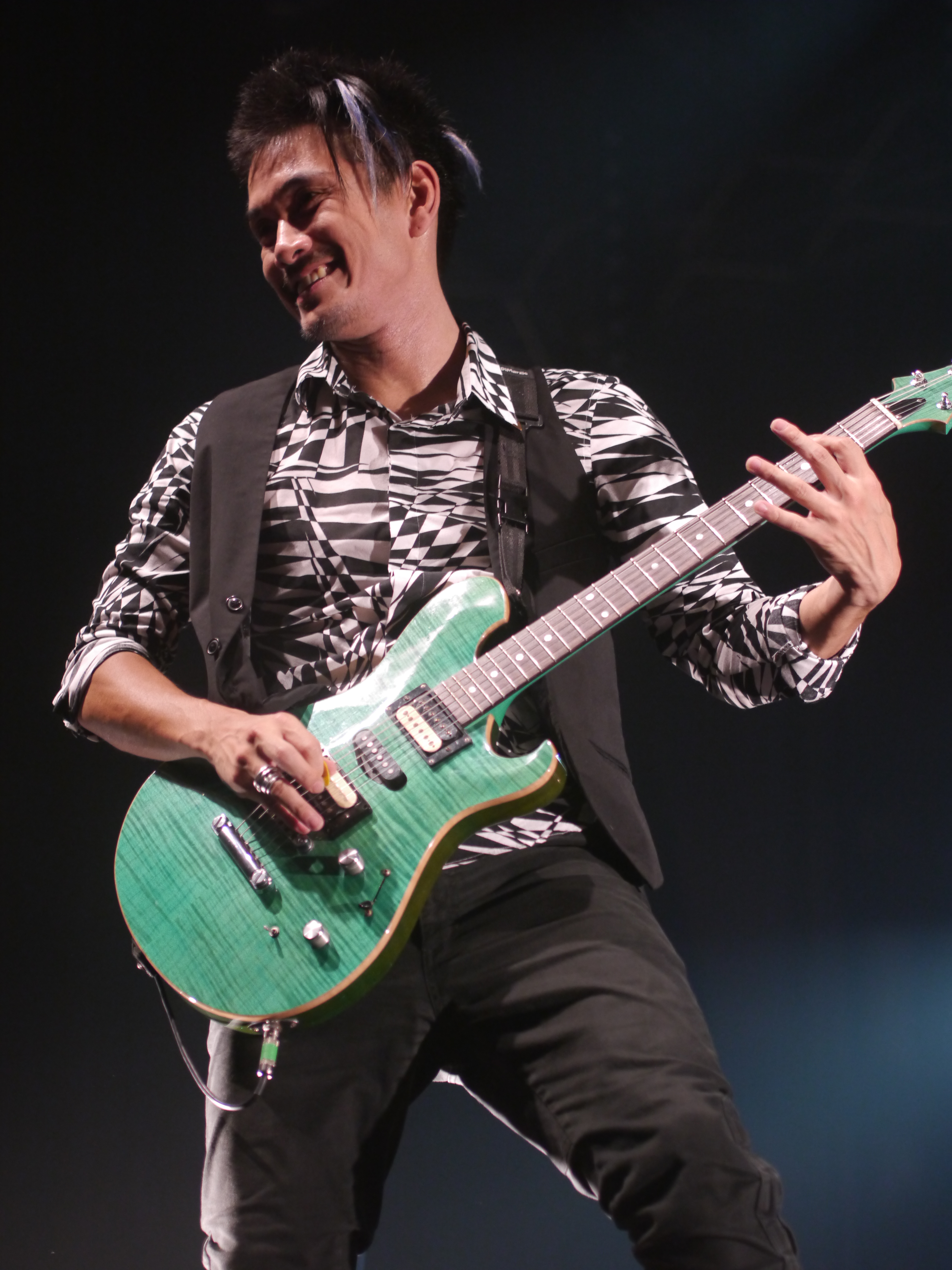 Concert of Flow organised by SoundLicious during the Japan Expo Festival in 2012.